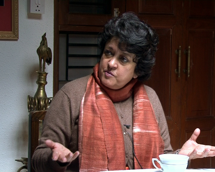 Nepali Deputy-prime minister Sujata Koirala